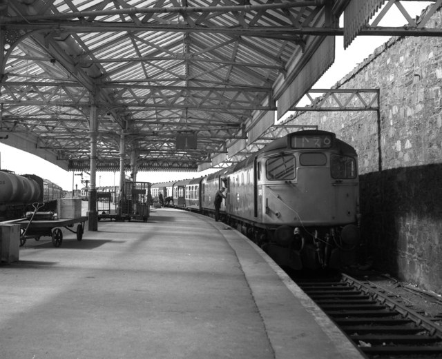 Mallaig station The train from Fort William has just arrived, double-headed by two light-weight diesel locomotives. The heavier classes of locomotives were not allowed over the line to avoid problems with bridges etc.